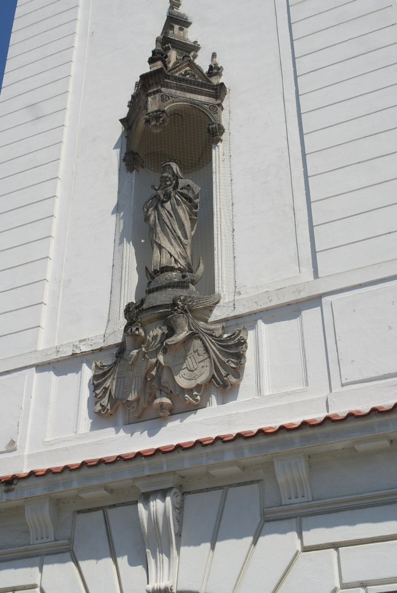 Church of the Nativity of the Virgin Mary, Trmice, District Ústí nad Labem